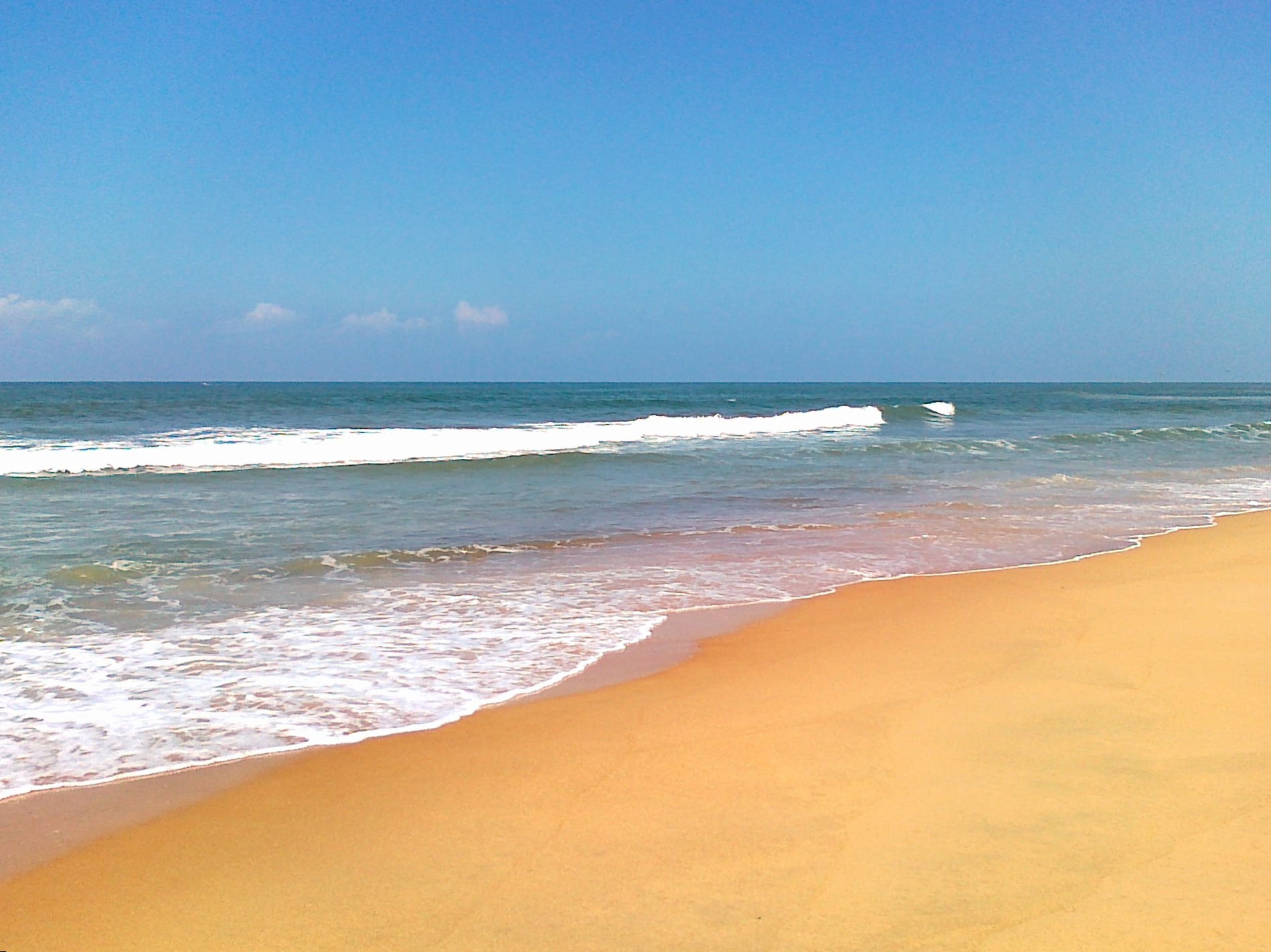 A view of Candolim Beach, Goa.